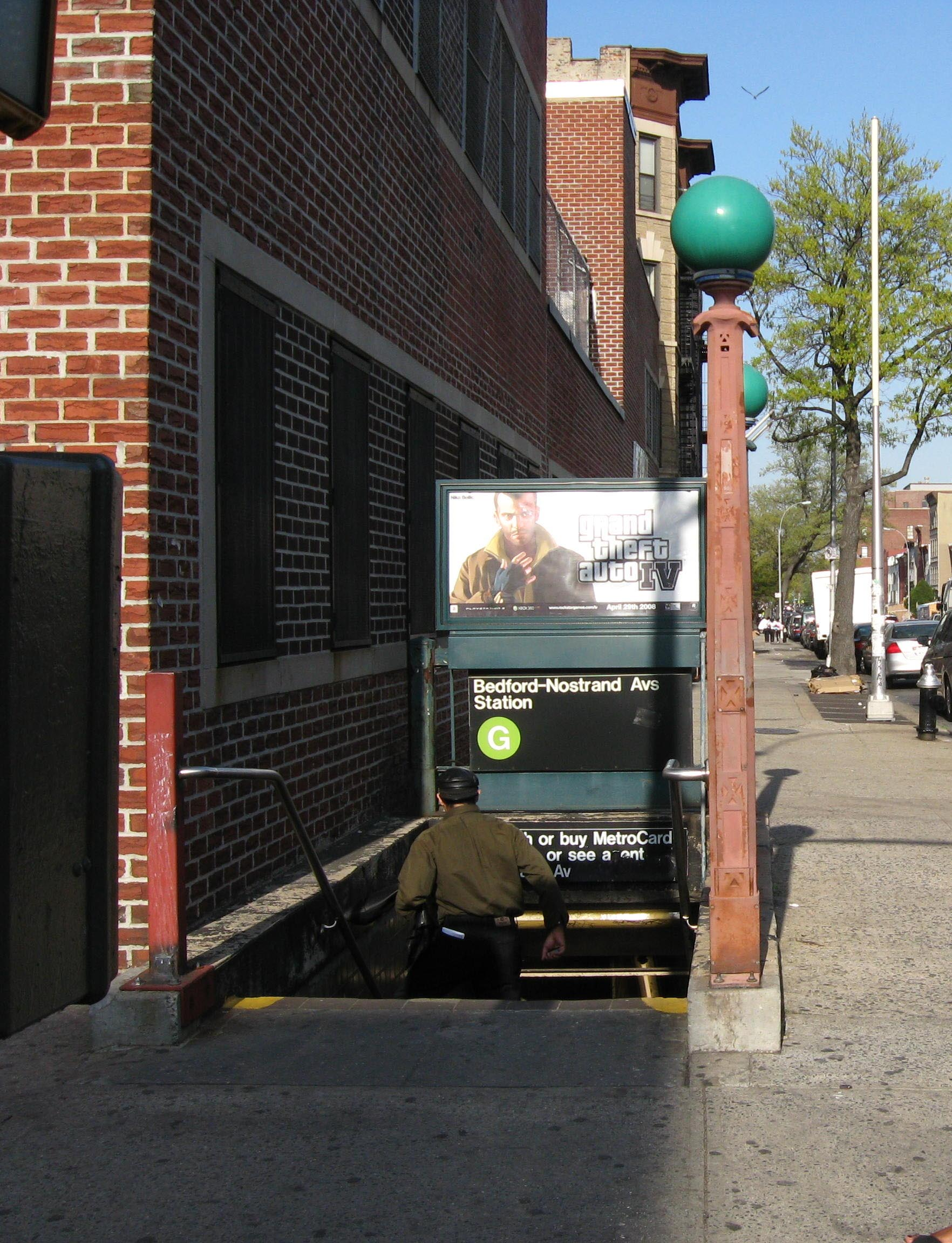 Looking east at Bedford–Nostrand Avenues (IND Crosstown Line) station of IND on a sunny spring late afternoon.